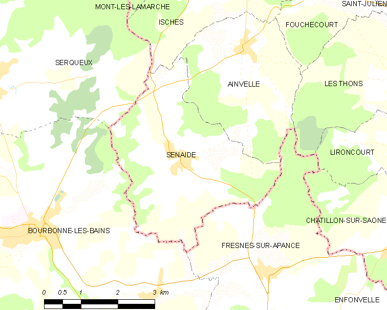 Map of French municipality Senaide